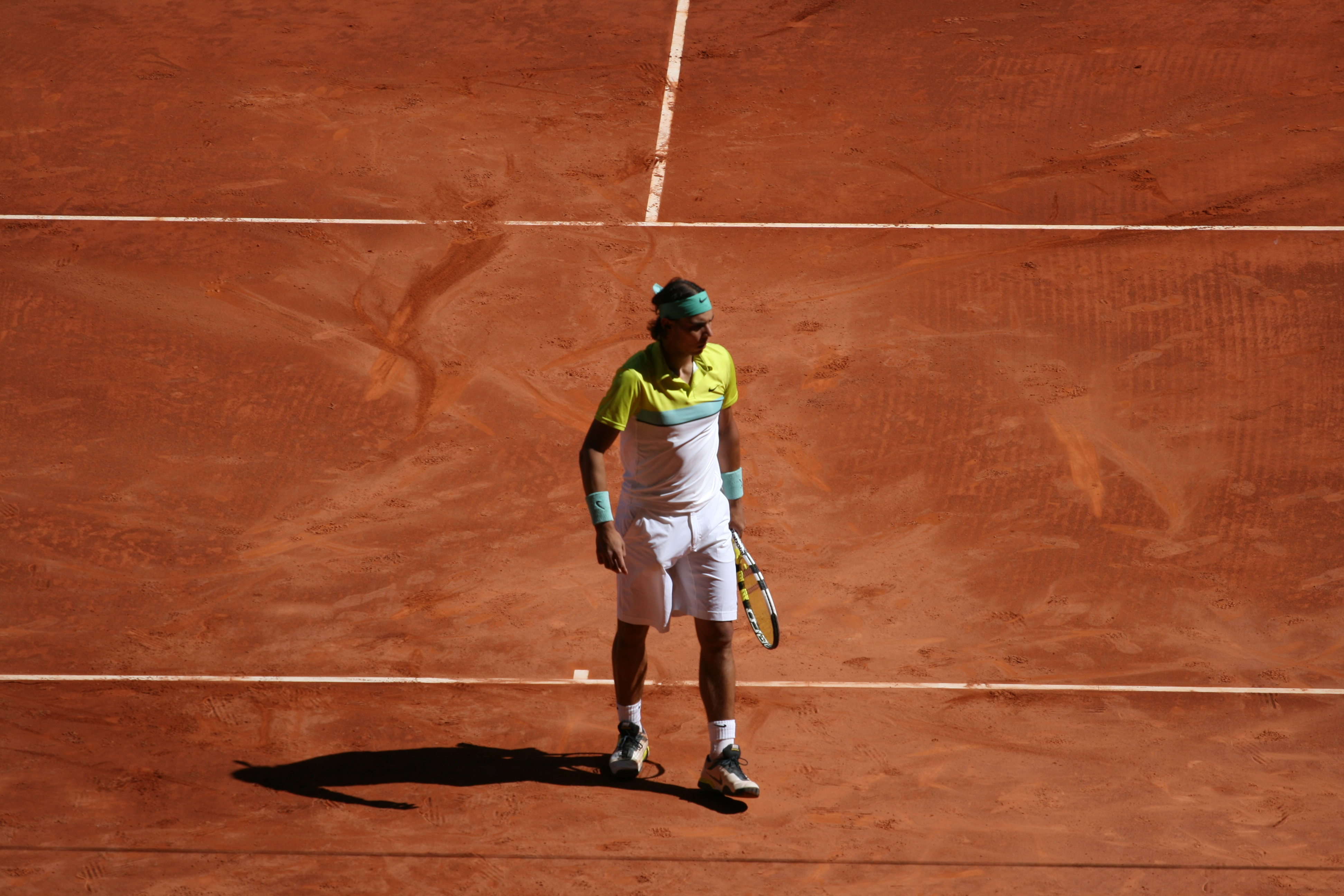 Rafael Nadal against Jürgen Melzer in the 2009 Mutua Madrileña Madrid Open second round